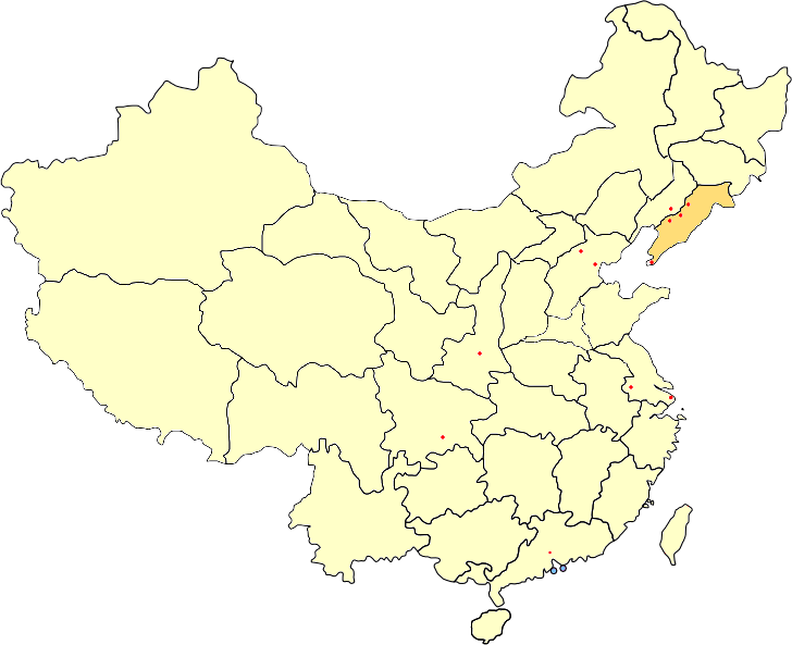 Liaodong province PRC (1949-1954)